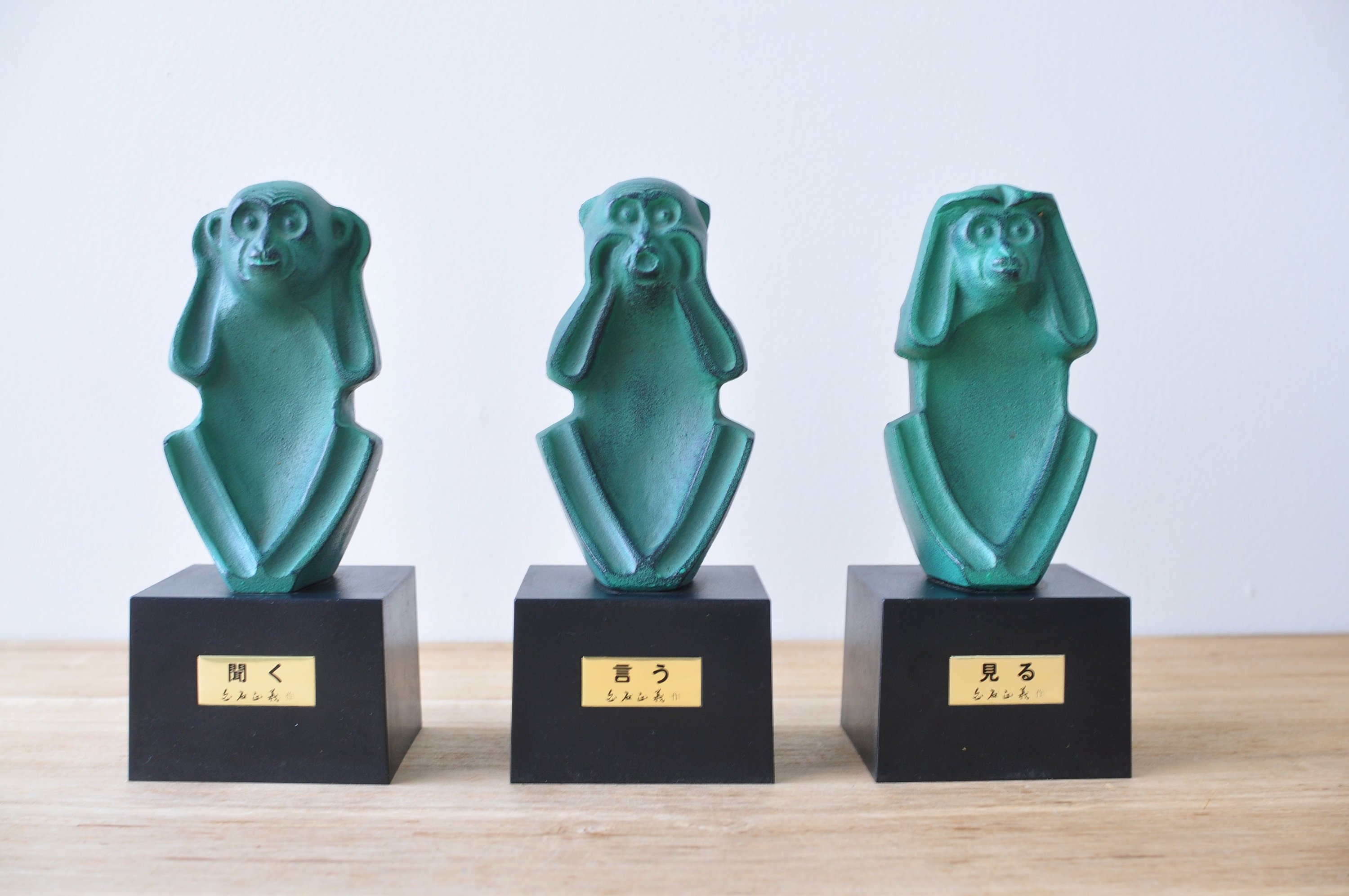 Three wise monkeys crafted in Japan. "Watch, listen, speak" "見る 聞く 言っ